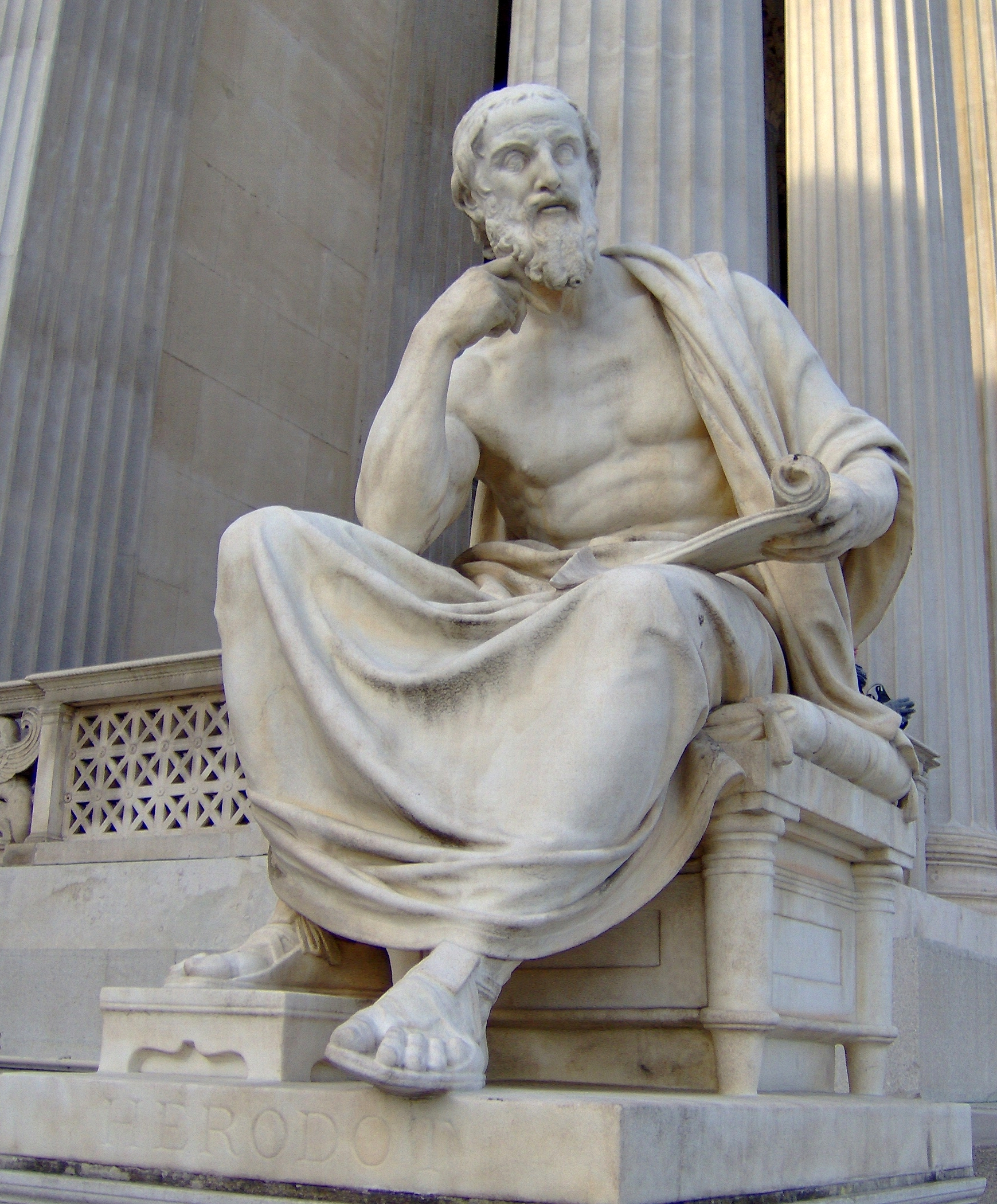 Austria, Vienna, Austrian Parliament Building